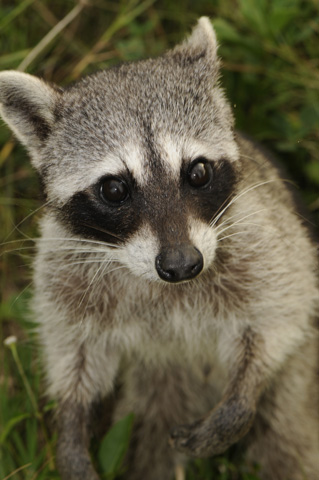 The Cozumel Raccoon (Procyon pygmaeus)Photographed on the northern end of Cozumel, Mexico.